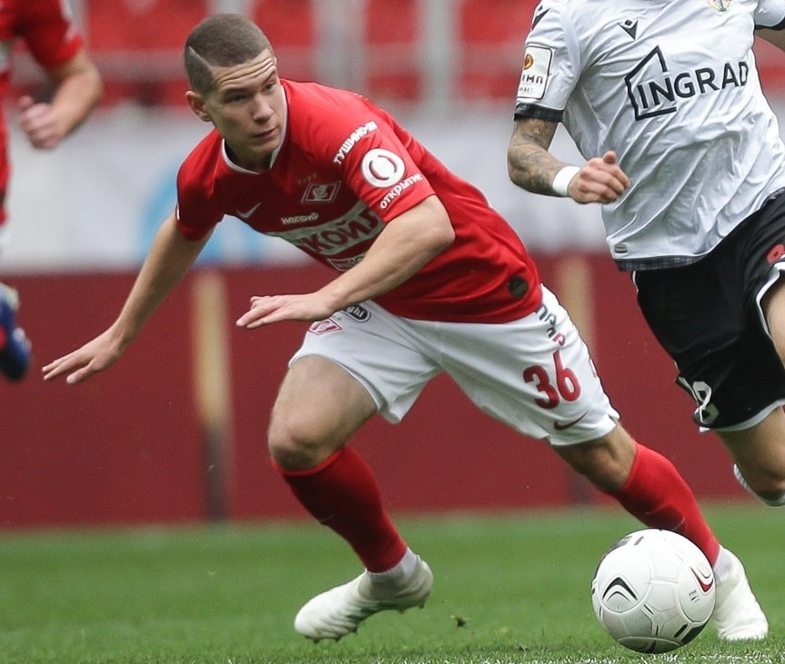 Artyom Voropayev with FC Spartak-2 Moscow in a game against FC Torpedo Moscow.